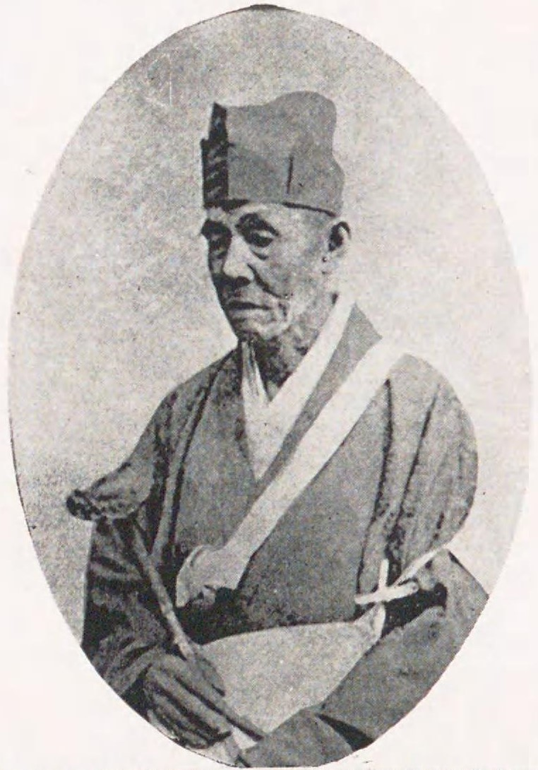 Fukuda Gyōkai, a Jōdo school monk in the late 19th century Japan.